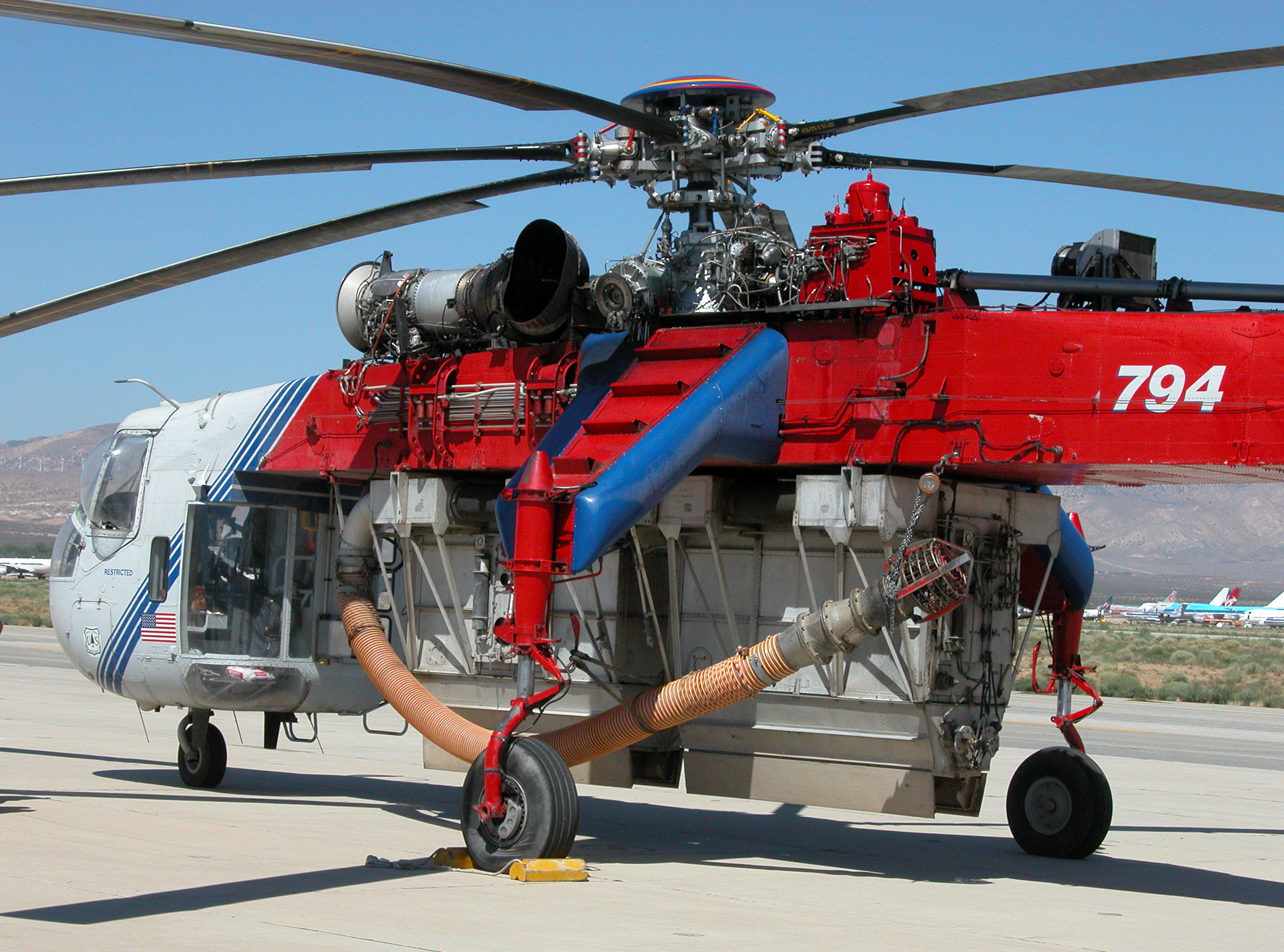 Heavylift CH-54A equipped for firefighting